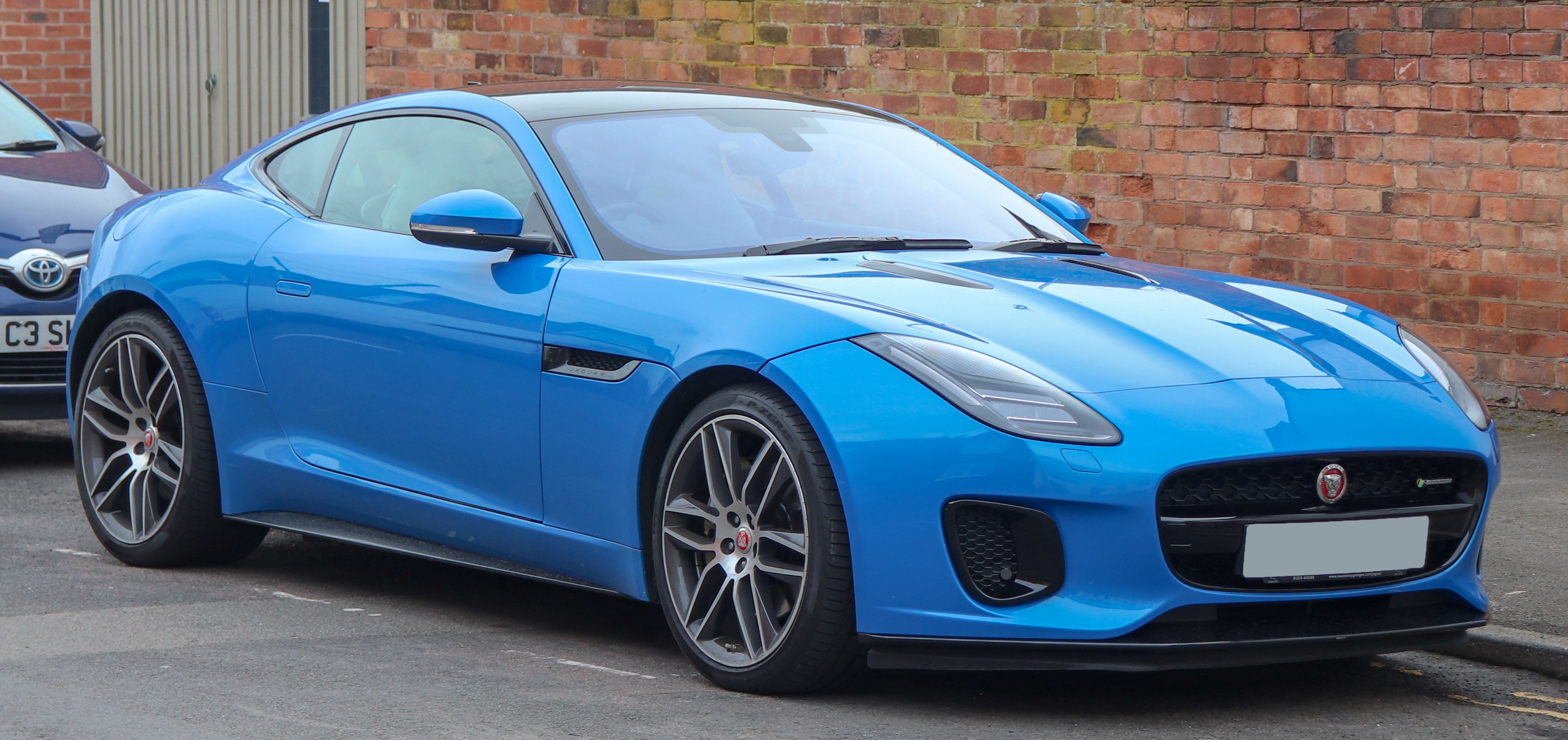 2017 Jaguar F-Type V6 R-Dynamic Automatic 3.0 Front Taken in Warwick